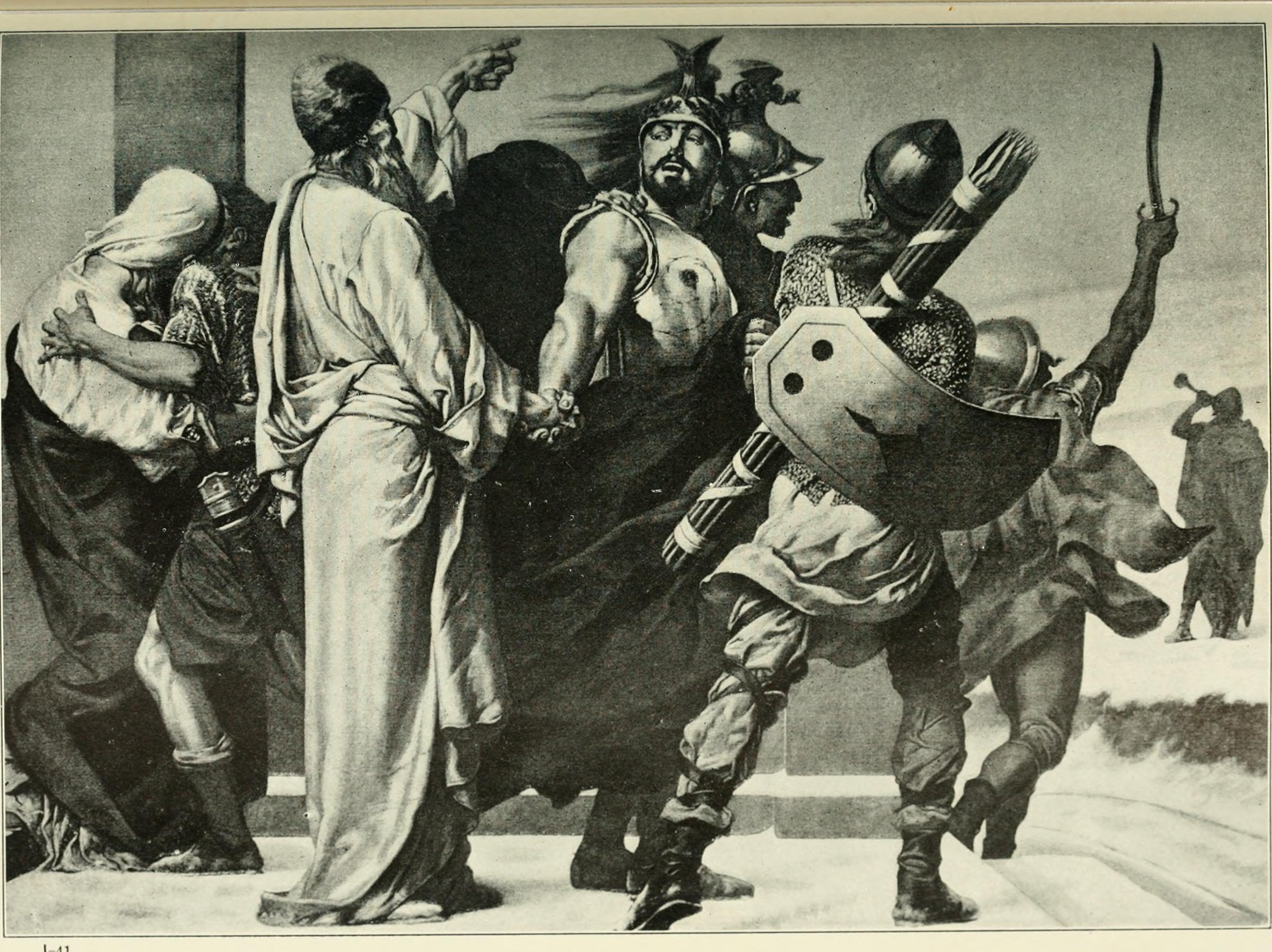 Title: The story of the greatest nations; a comprehensive history, extending from the earliest times to the present, founded on the most modern authorities, and including chronological summaries and pronouncing vocabularies for each nation; and the world's famous events, told in a series of brief sketches forming a single continuous story of history and illumined by a complete series of notable illustrations from the great historic paintings of all lands Year: 1913 (1910s) Authors: Ellis, Edward Sylvester, 1840-1916 Horne, Charles F. (Charles Francis), 1870-1942 Subjects: World history Publisher: New York : Niglutsch Text Appearing Before Image: ' Text Appearing After Image: Persia—Cyrus the Great 8 r soldiers, Harpagus, to slay the child; but instead Harpagus had the boy broughtup in secret by a peasant. The strength and resolution of the lad Cyrus, no lessthan his kingl)- beauty, so distinguished him above all the other peasant lads thathis birth was suspected, and finally Harpagus confessed it. Astyages thenspared Cyrus at the entreaty of the boy s mother, but punished Harpagus byslaying the latters son under circumstances of revolting cruelty. Harpagus pretended a continued loyalty, but, being secretly determined onrevenge, constantly urged his foster-child Cyrus to revolt against Astyages.This Cyrus did after he had succeeded his father on the subordinate throne ofPersia. He summoned all the Persian men to meet him, bidding each bring ahatchet. When they were gathered in wonderment, he set them to a hard dayswork at chopping trees, offering them no refreshment through all their labor.The next day he invited them to a feast, and when this reached it